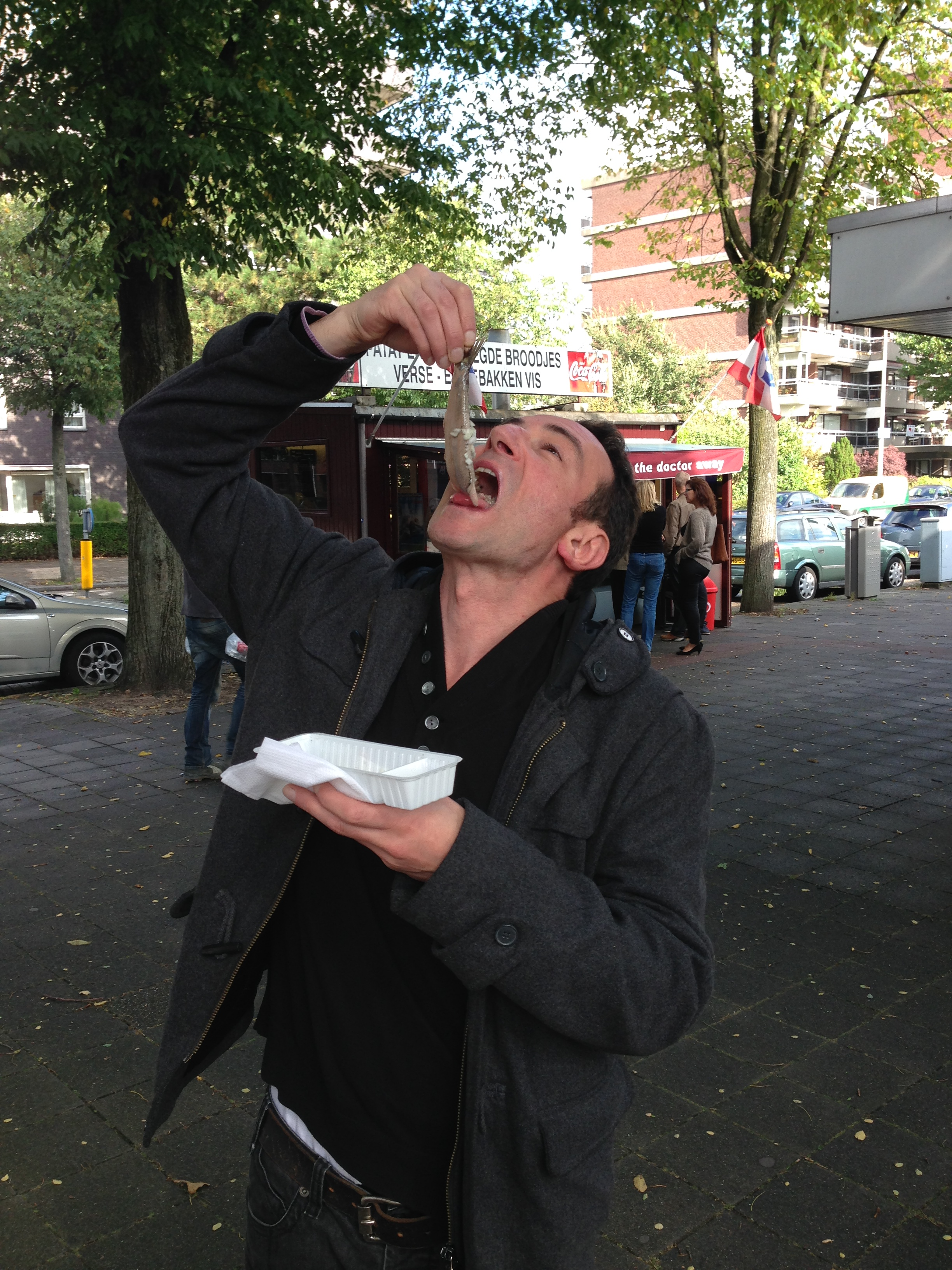 Maatjesharing eaten in the "Dutch" way